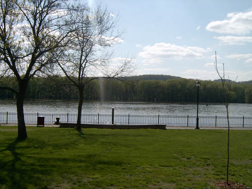 Mississippi River, view from the Island at Prairie du Chien, Wisconsin.